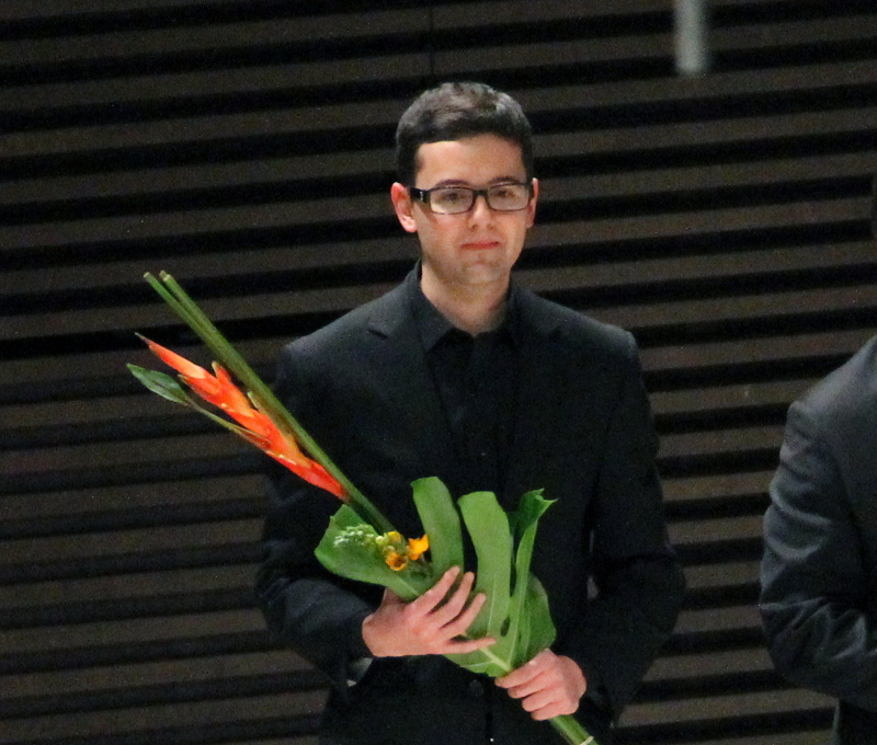 Dani Juris, conductor of The Kaamos Chamber Choir, at the 15th anniversary concert of The Helsinki Baroque Orchestra at The Helsinki Music Centre.